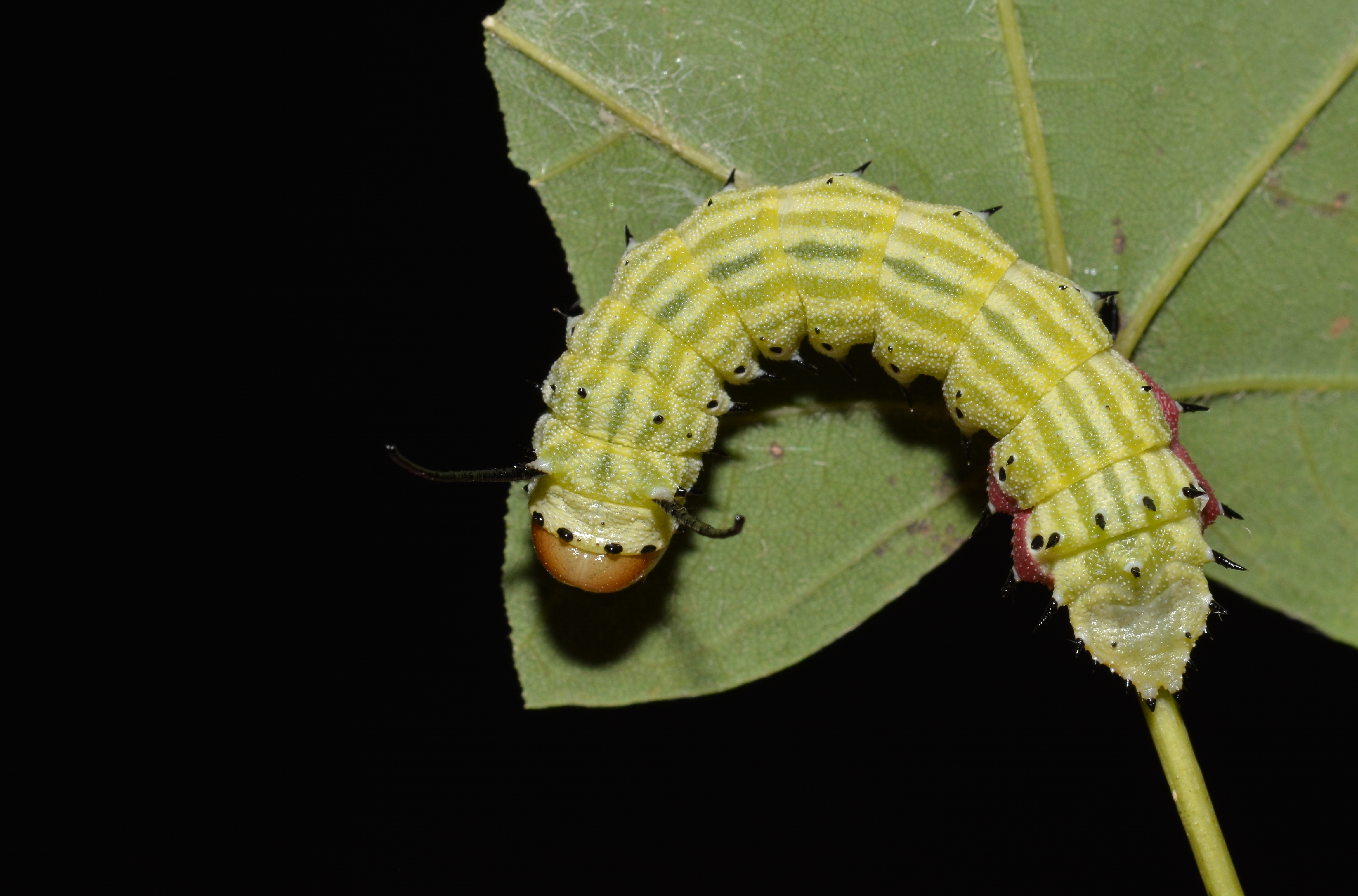 Mothing at Robertsville State Park in Franklin County, Missouri on 7/27/19 Found and identified by Matt Ladage